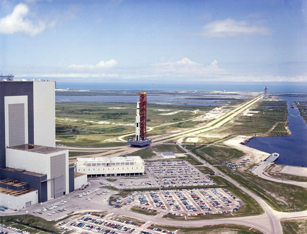 Saturn V SA-506, the rocket carrying the Apollo 11 spacecraft, is rolled out of the Vehicle Assembly Building and down the 3.5 mile crawlerway to Launch Complex 39-A.